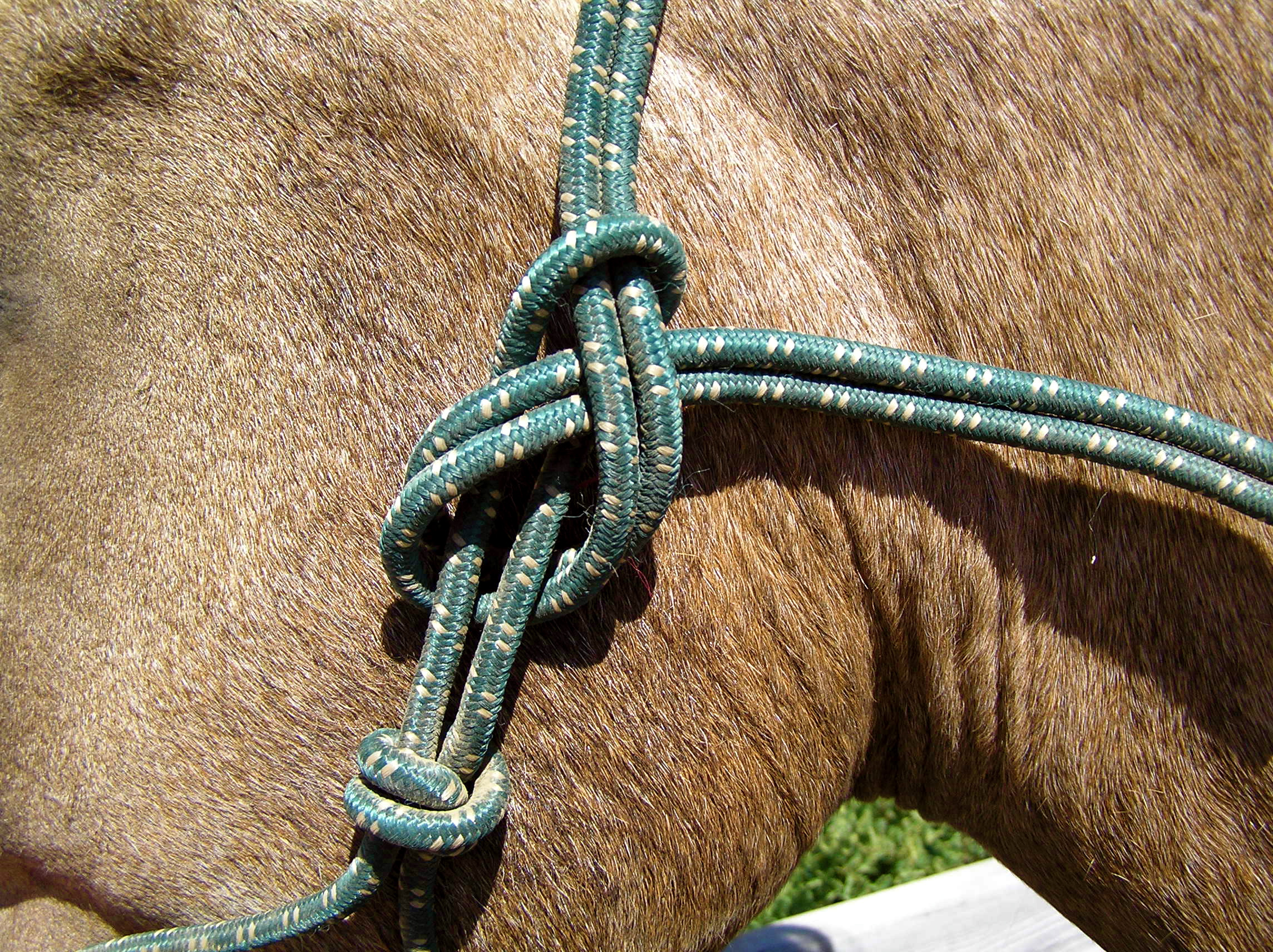 A rope horse halter is attached with a modified sheet bend knot, as shown